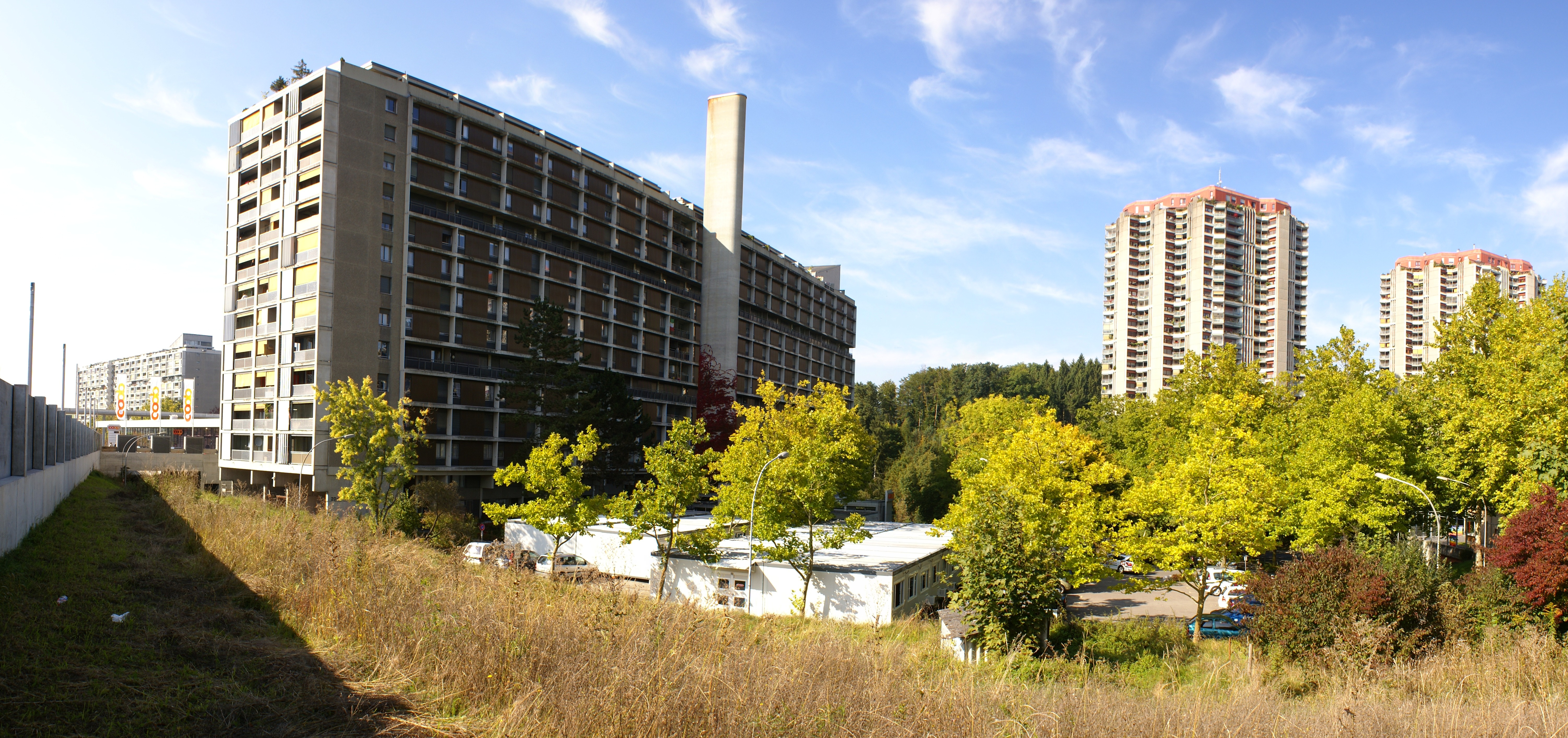 Gäbelbach highrise housing development in the Bethlehem neighbourhood, Berne, Switzerland.